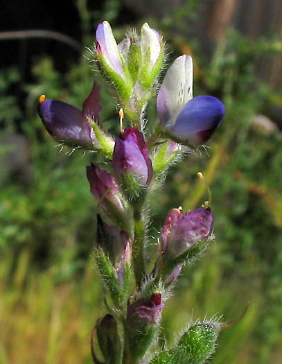 Lupinus concinnus. Santa Monica Mountains National Recreation Area, California, USA. Taken at Circle X Ranch: Campground, oak woodland/disturbed habitat. NPS photo, no copyright.